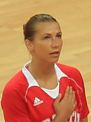 Iva Ciglar of the Croatian Women's Basketball team prior to their match with Angola in the Group A preliminary rounds for the London 2012 Olympic Games.